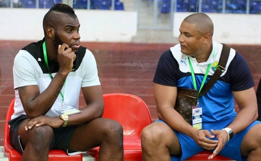 Gilles Mbang Ondo talking with Daniel Cousin, General Manager of Gabon.; Omar Bongo Stadium